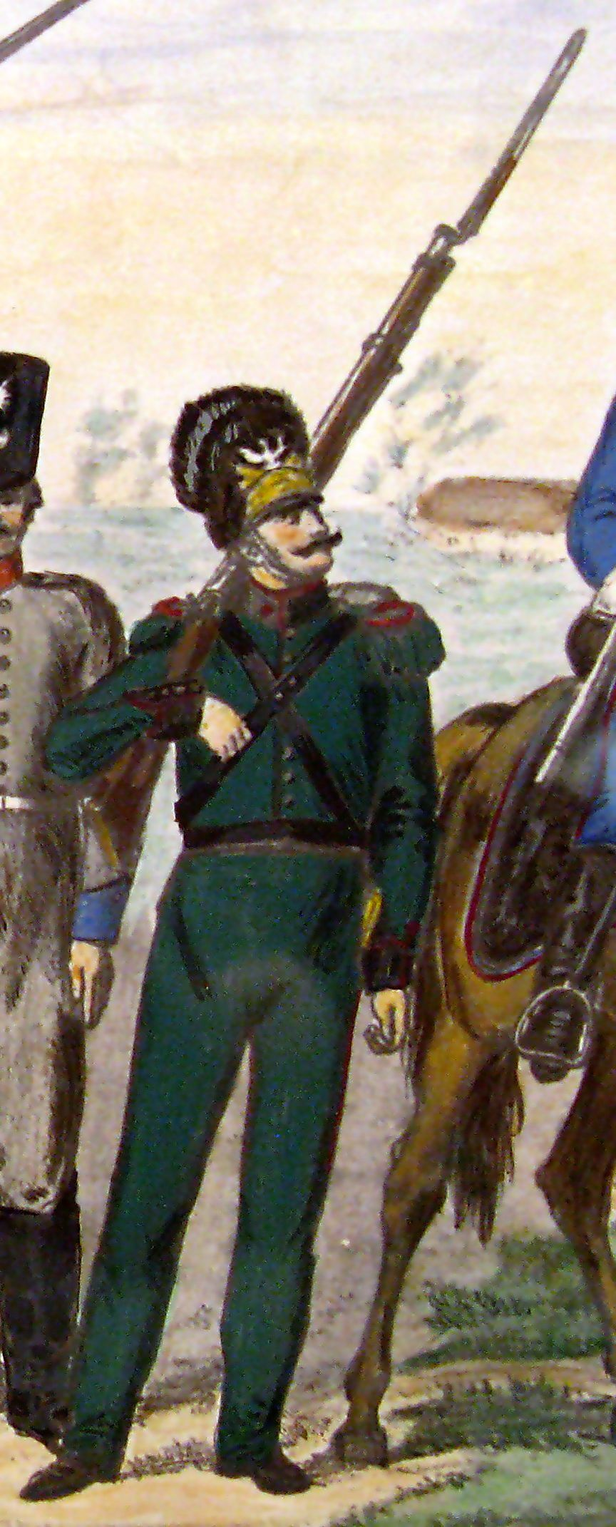 Sniper of Eustachy Grothus of Polish Army of November Uprising